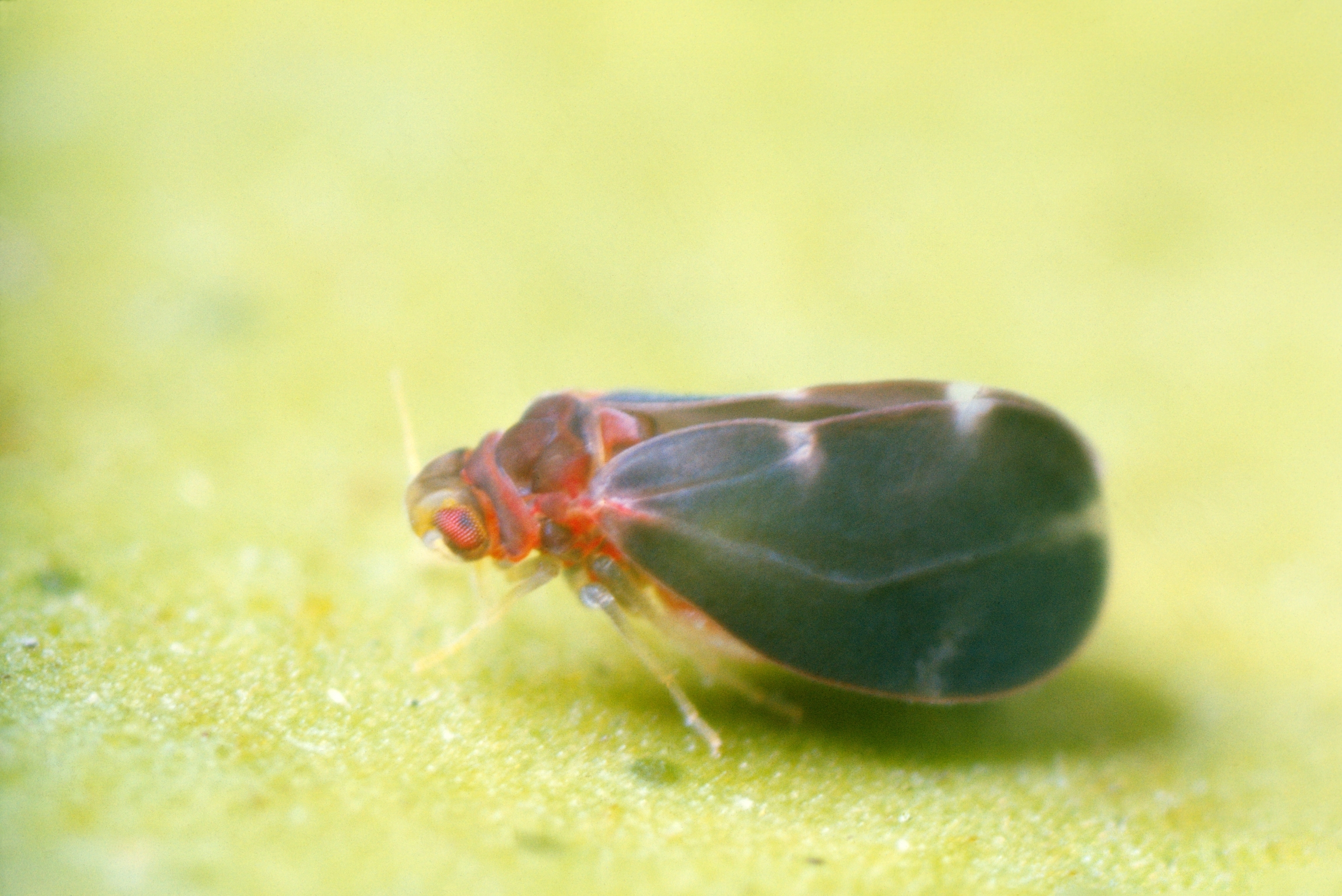 Aleurocanthus woglumi Ashby Common Name: citrus blackfly Photographer: Division of Plant Industry Archive, Florida Department of Agriculture and Consumer Services, United States Contact: Jeffrey W. Lotz, Florida Department of Agriculture and Consumer Services Descriptor: Adult(s) Image taken in: Florida, United States